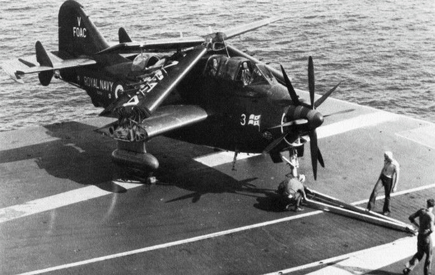 A Royal Navy Fairey Gannet COD.4 (Flag Officer Aircraft Carriers) from the aircraft carrier HMS Victorious (R38) aboard the U.S. Navy aircraft carrier USS Bennington (CVS-20). Bennington, with assigned Carrier Anti-Submarine Air Group 59 (CVSG-59), was deployed to the Western Pacific and Vietnam from 22 March to 7 October 1965.